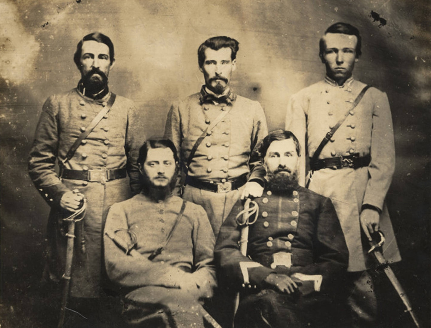 Brigadier General Sterling Alexander Martin Wood and staff, C.S.A. Before his appointment to brigadier general, Wood had been a colonel of the 7th Alabama Infantry, C.S.A. Seated, left to right: Lieutenant Henry Class Wood, aide-de-camp, and General S. A. M. Wood. Standing, left to right: Surgeon Major William Cordwell Cross; Reverend Alexander Lockett Hamilton; and possibly Assistant Quartermaster Martin Walt. Alabama Photographs and Pictures Collection, Collections of the Alabama Department of Archives and History